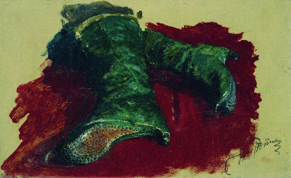 Tsarevich's boots. Study for the picture Ivan the Terrible and His Son Ivan